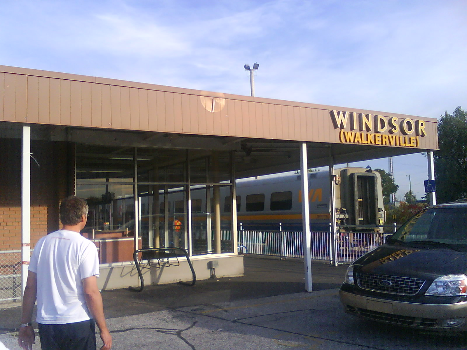 VIA Rail Station in Windsor, Ontario